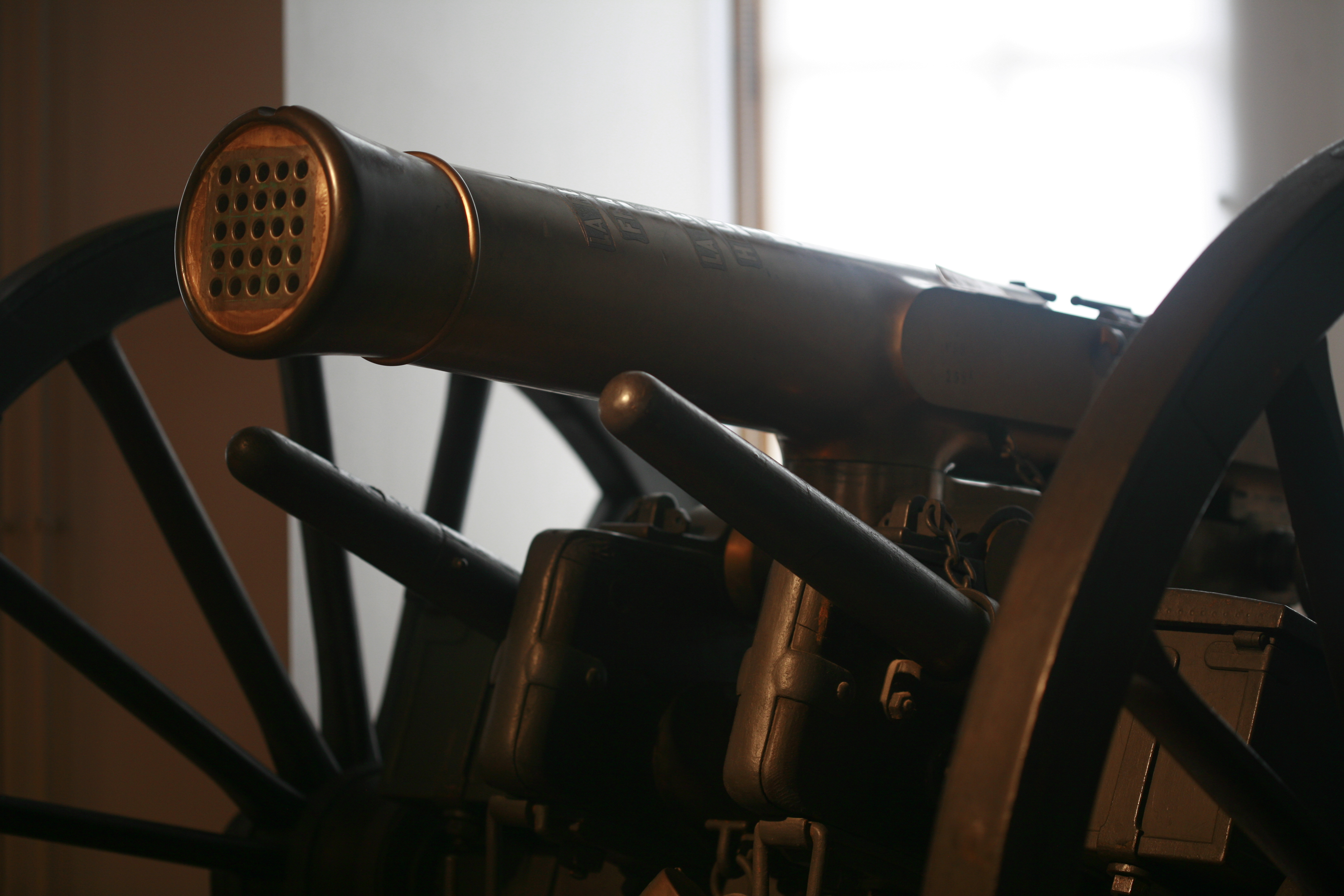 Machine gun, museum of Morges castel, Switzerland